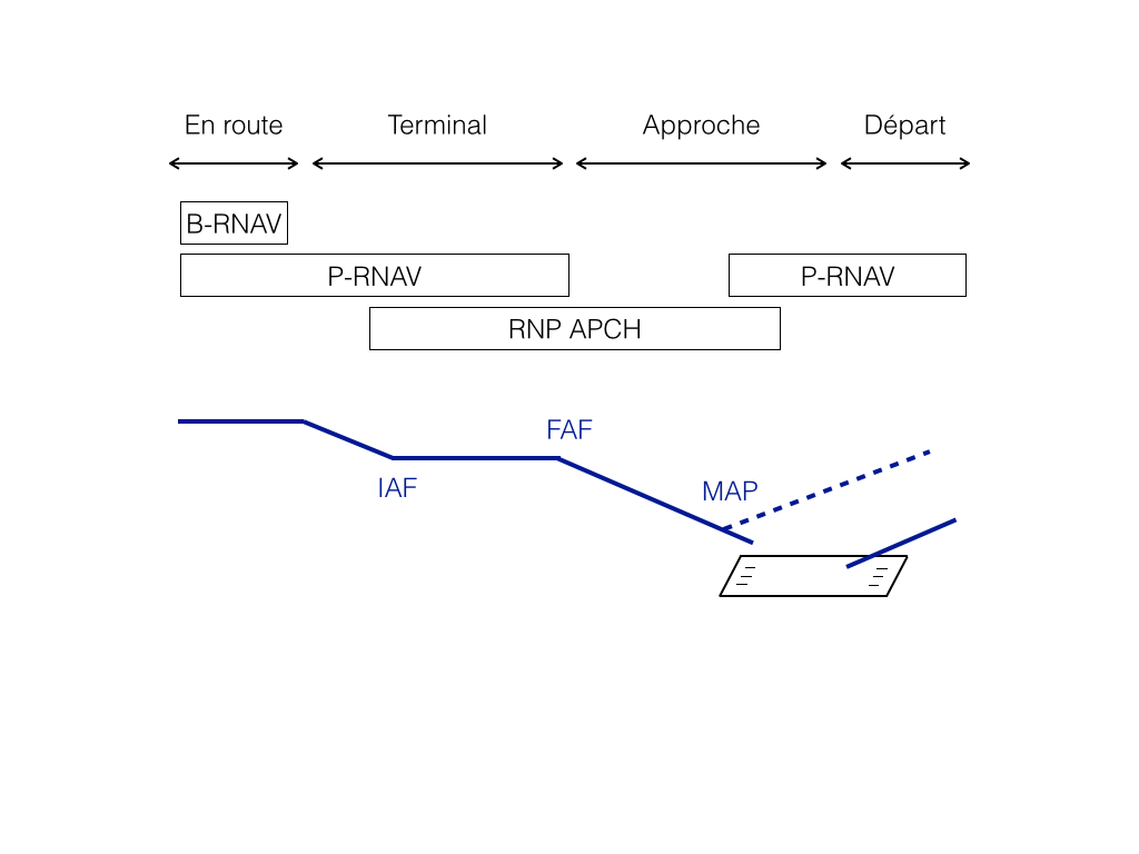 Different phases of a flight under RNAV.